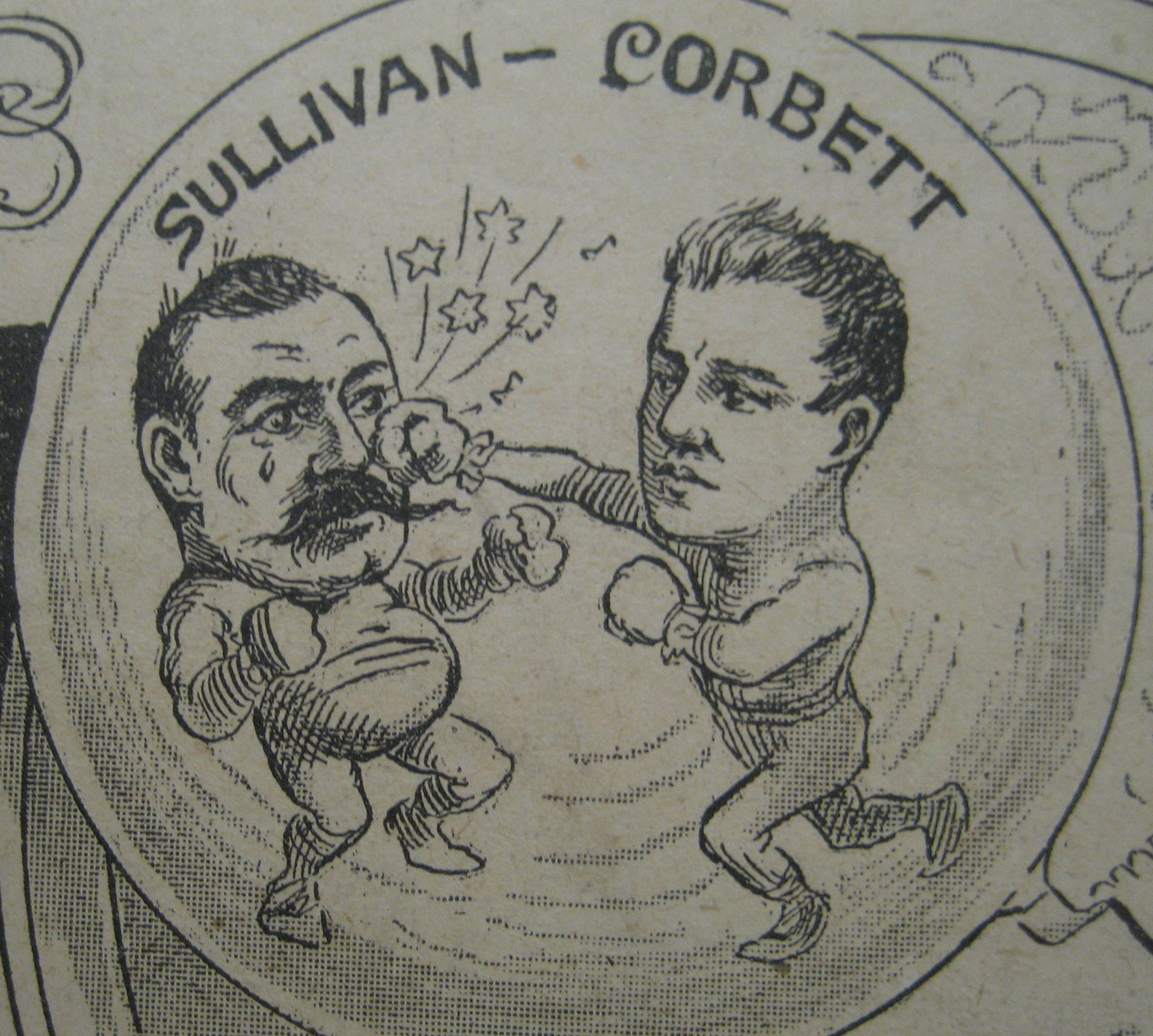 Caricature of Sullian Corbett prizefight